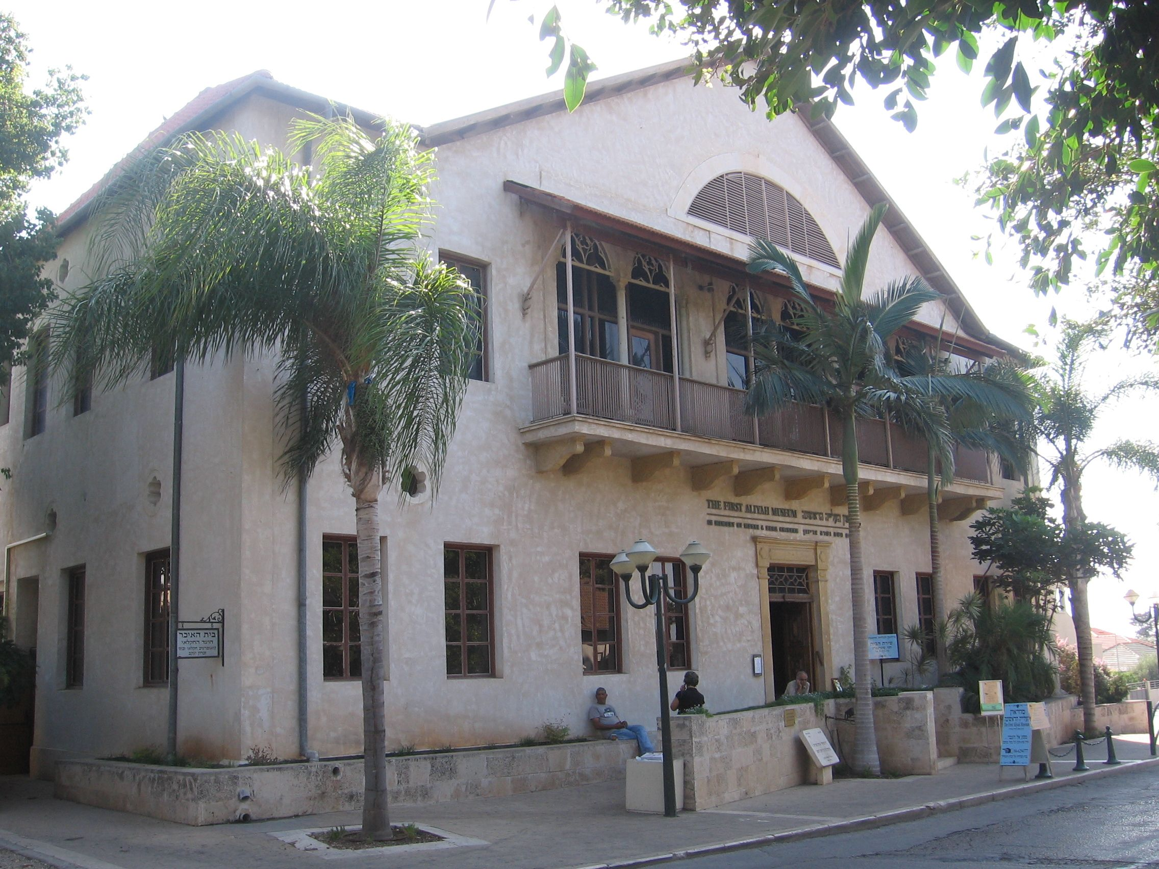 The clerical house in Zikhron Ya'akov.